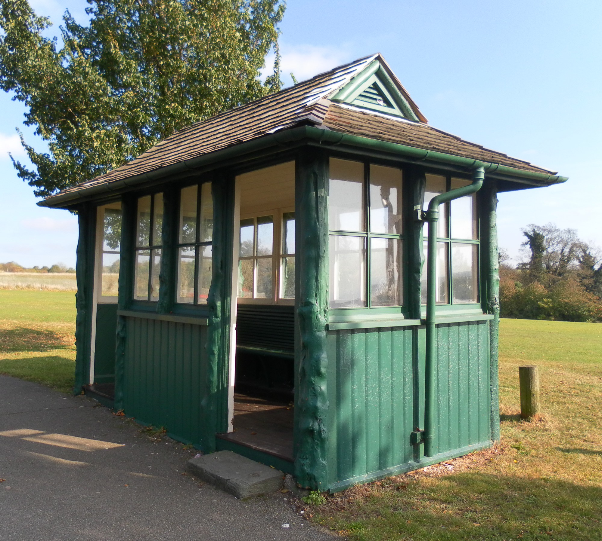 Former tram shelter (now used as a bus shelter) on the east side of Ditchling Road (opposite the junction of Surrenden Road), Hollingdean, Brighton, City of Brighton and Hove, England. It is Grade II-listed, unlike the similar shelter further south on Ditchling Road (at the junction of Upper Hollingdean Road) which is locally listed.